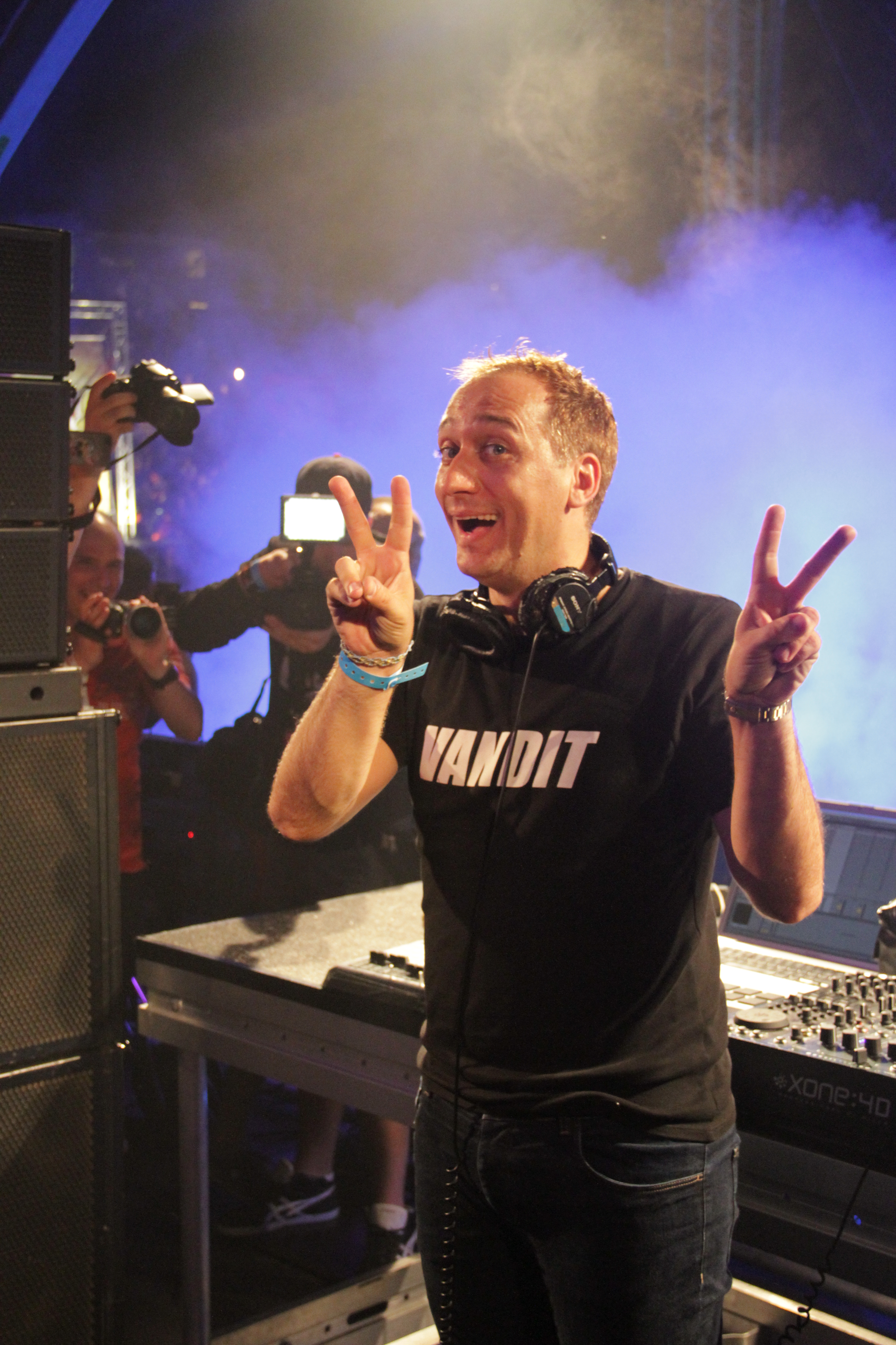 Paul van Dyk